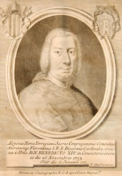 Luigi Maria Torregiani (1697-1777), cardinal secretary of state